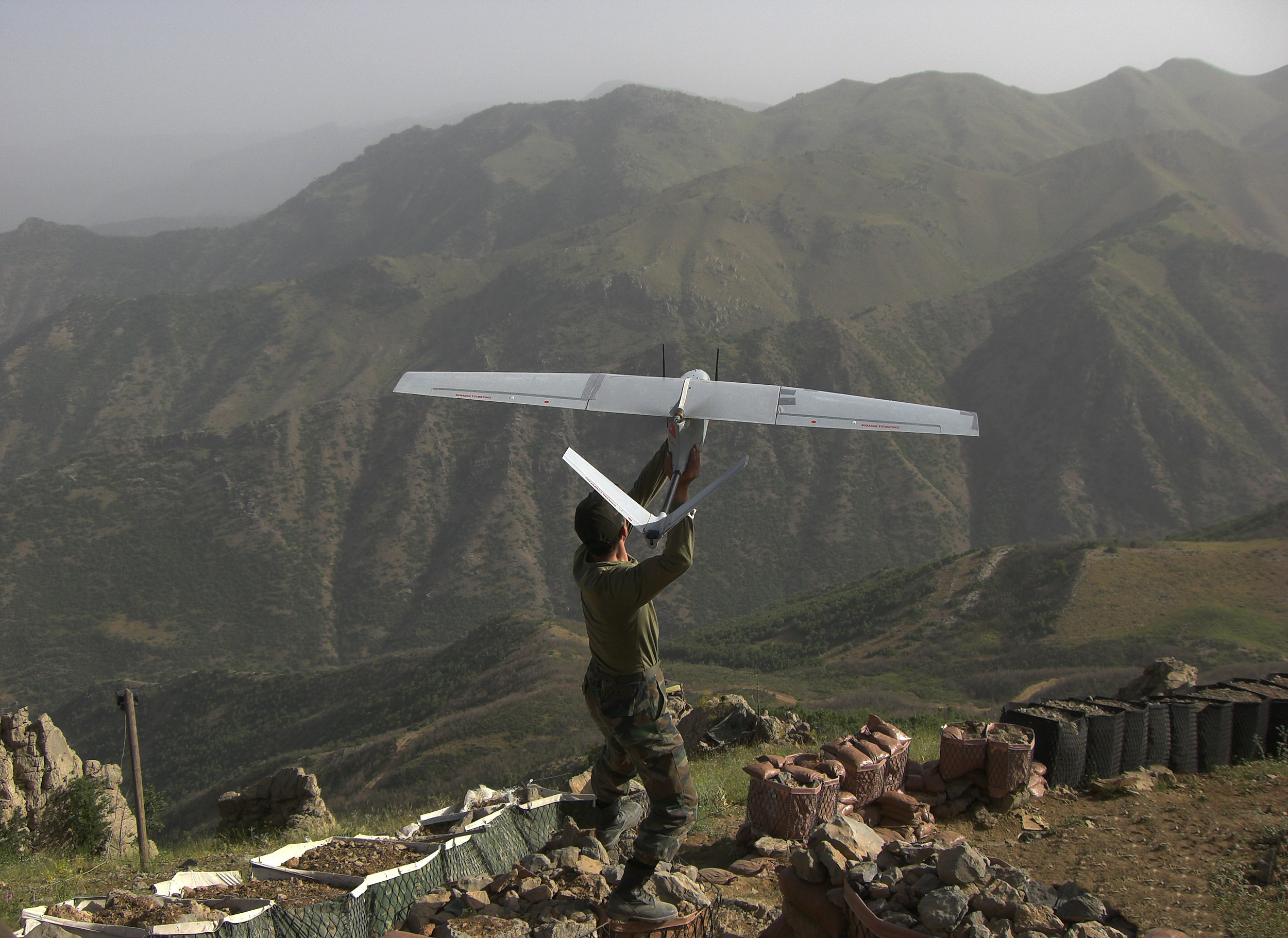 Bayraktar Mini İHA Kalkış Esnasında